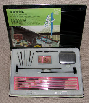 Acupuncture needles